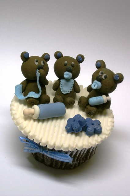 Cupcake with bears and bottles.